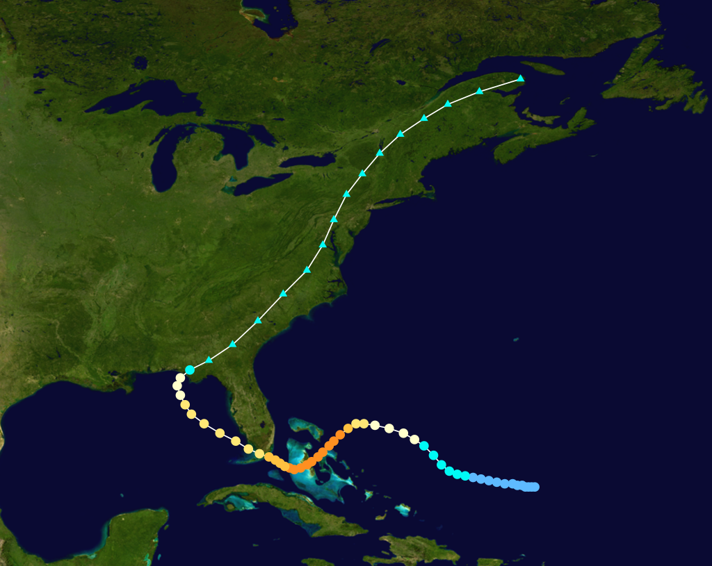 1929 Florida hurricane track. Uses the color scheme from the Saffir-Simpson Hurricane Scale.